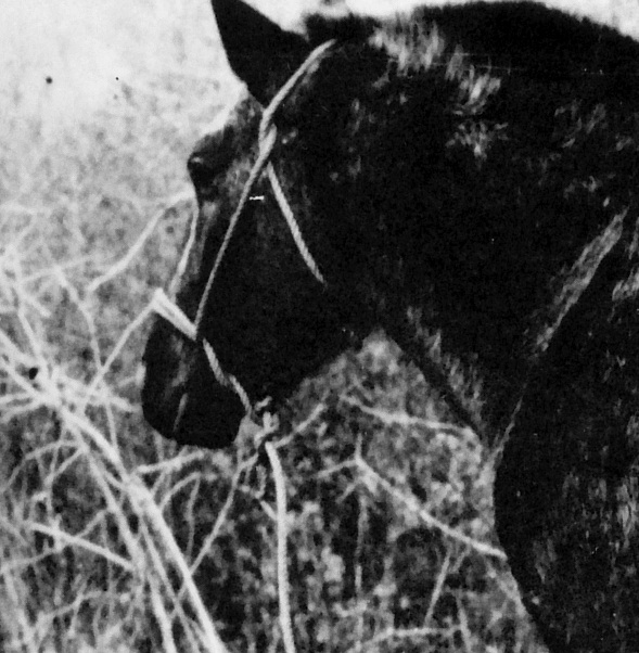 Simple rope bridle on a Nez Perce horse